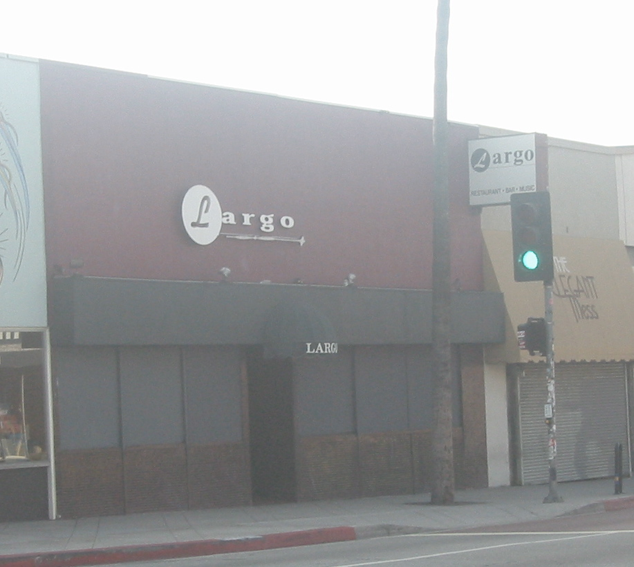 Largo nightclub in Fairfax Avenue in Los Angeles, California